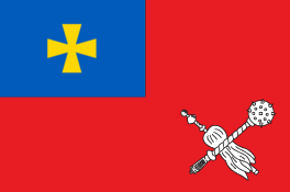 Flag of Gadyackyi Rayon